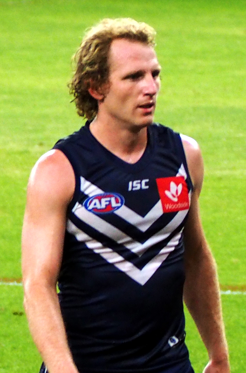 David Mundy playing for Fremantle Football Club at Optus Stadium, Round 6, 27 April 2019